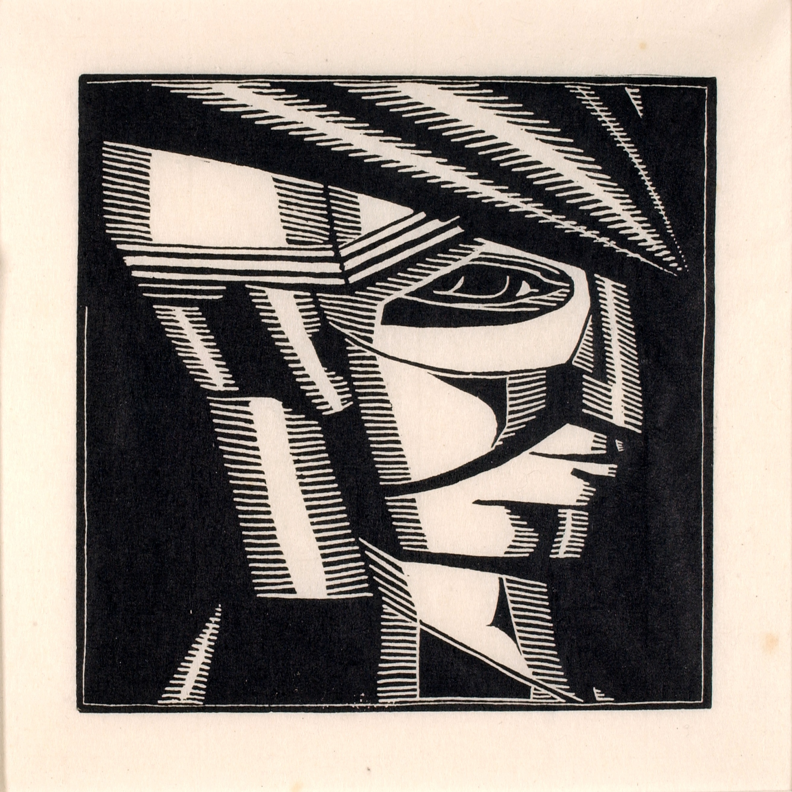 'Profile Head with Cap', woodcut on paper by John Storrs, c. 1918, Smithsonian American Art Museum